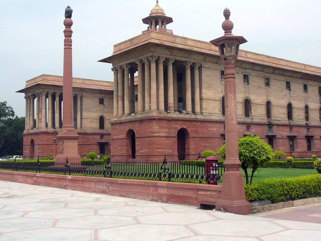 Secretariat Building at New Delhi (India)